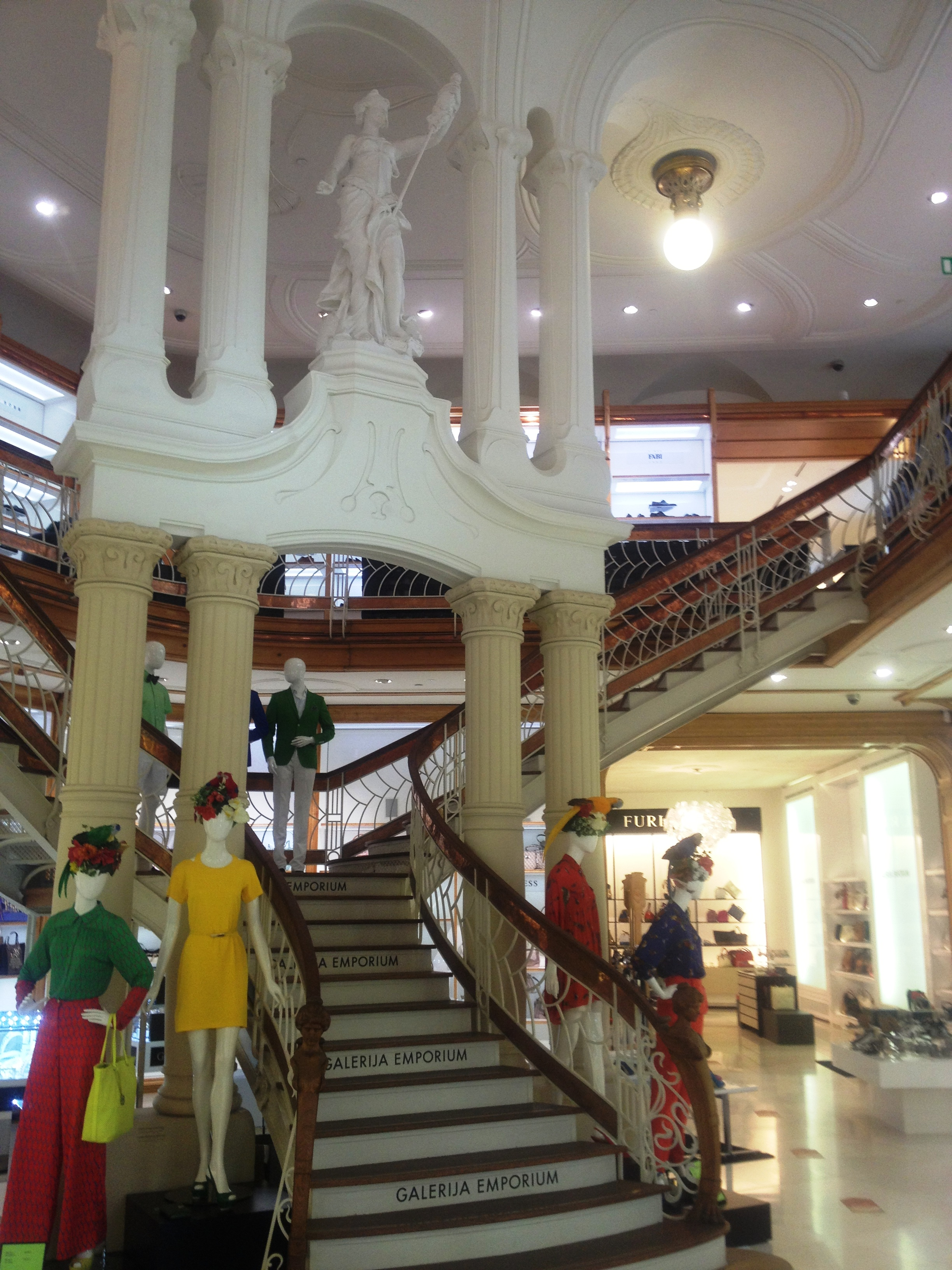 Interior of the Urbanc House in the centre of Ljubljana, Slovenia. It was constructed by the Imperial and Royal Warrant holder Anton Irschick (family name also spelled Jrschick).